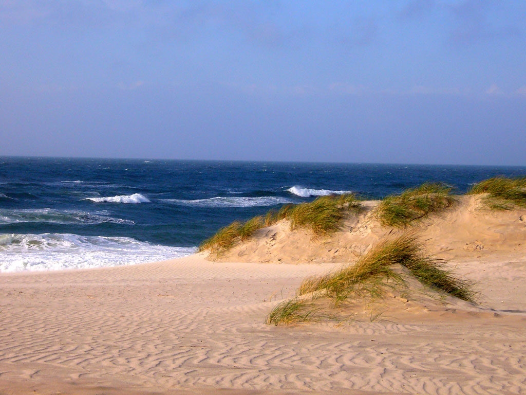 Beach grass, dunes, the sea.